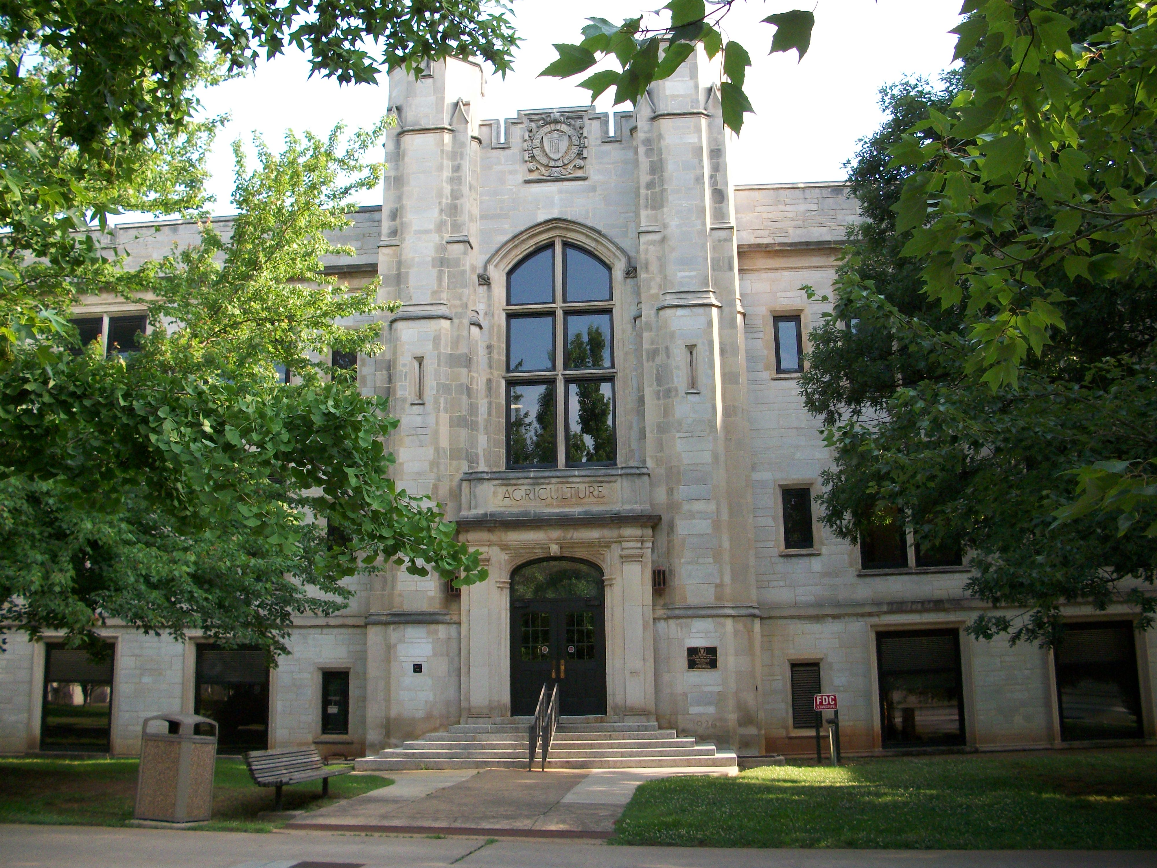 Agriculture Building at the University of Arkansas. It is listed on the National Register of Historic Places.